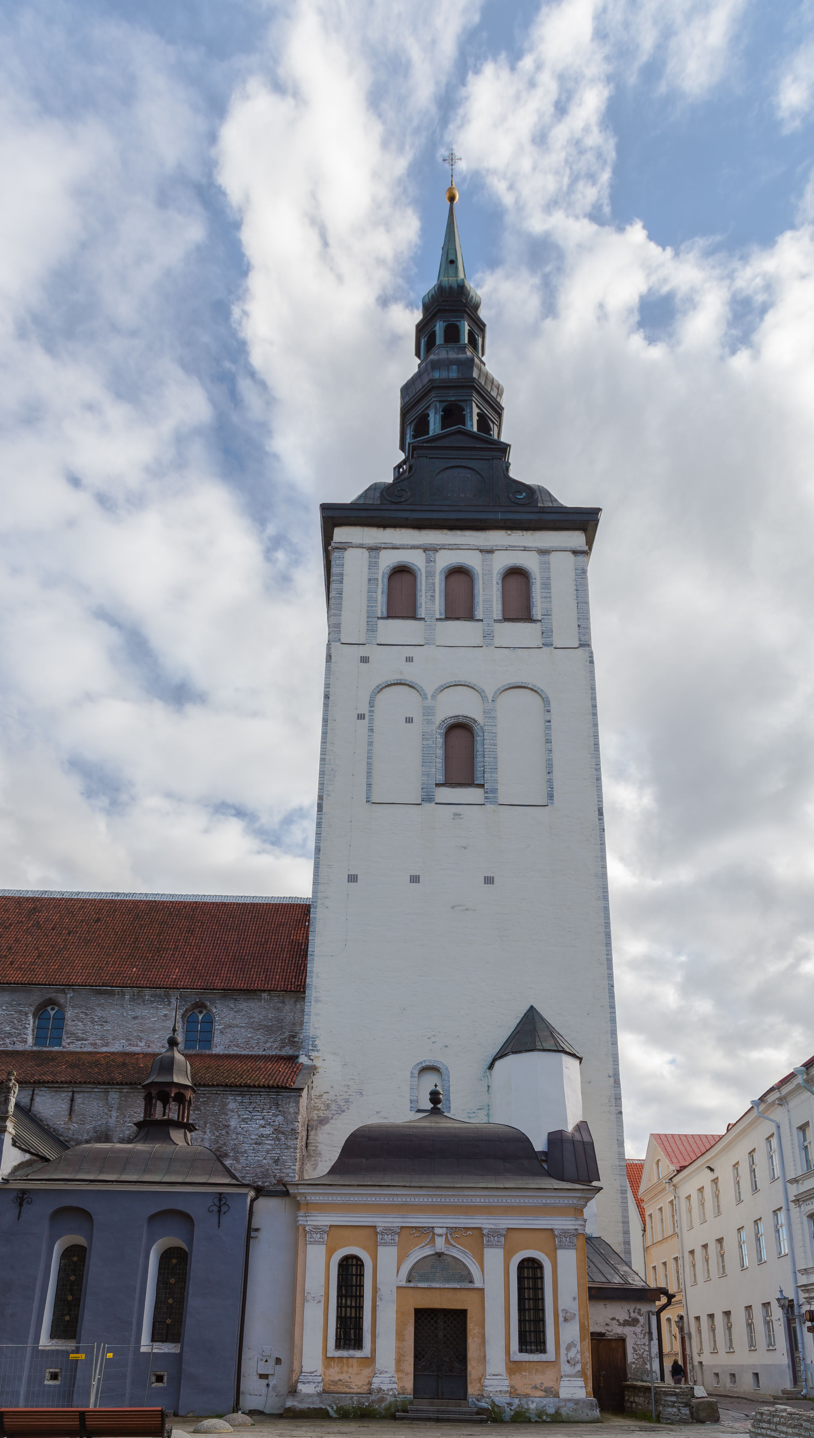 St. Nicholas' Church, Tallinn, Estonia